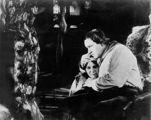 Excerpt from The Squaw Man (1914 film). Dustin Farnum and Red Wing.